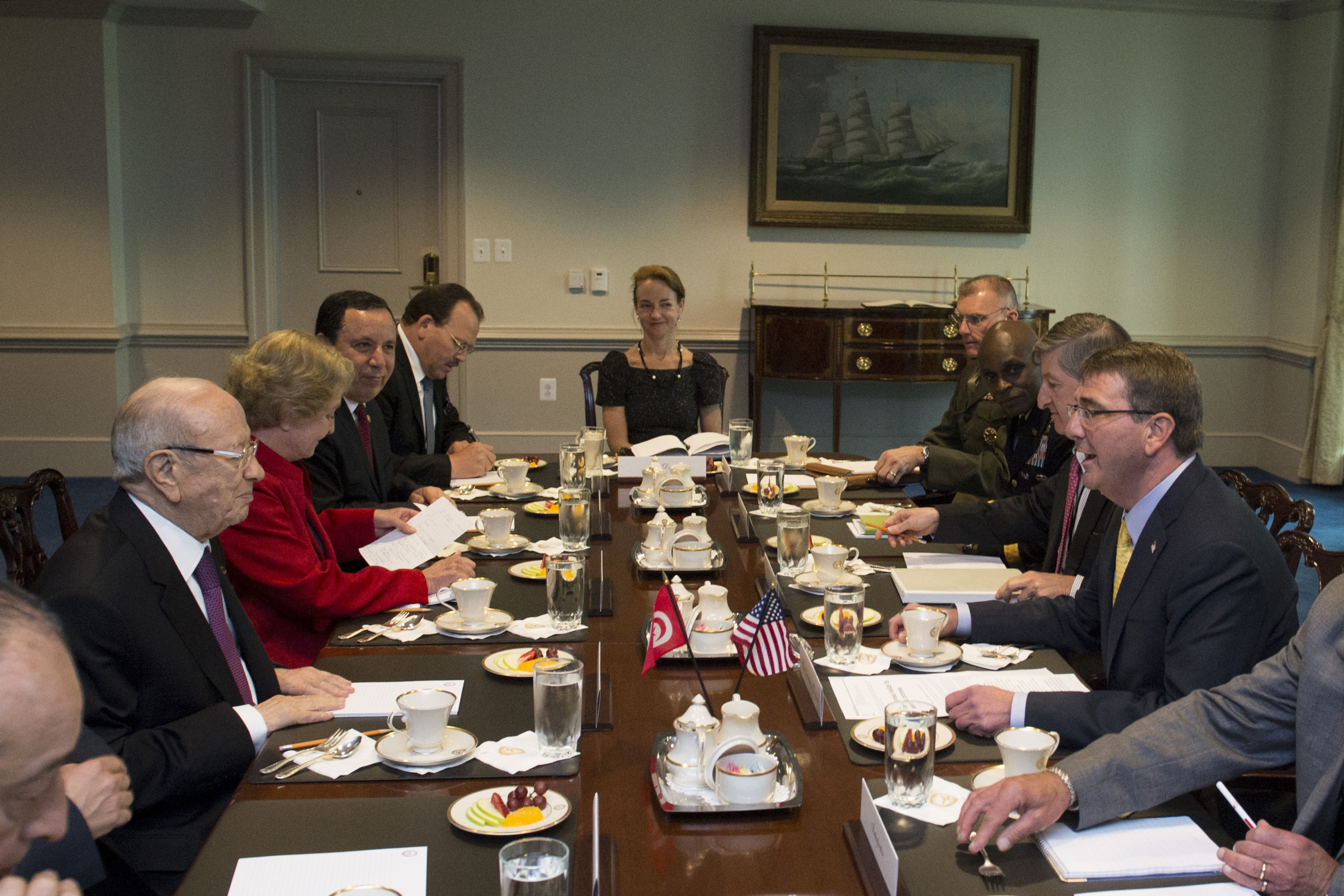 U.S. Defense Secretary Ash Carter, right, meets with Tunisian President Beji Caid Essebsi, left, at the Pentagon, May 21, 2015. Both leaders discussed matters of mutual importance.